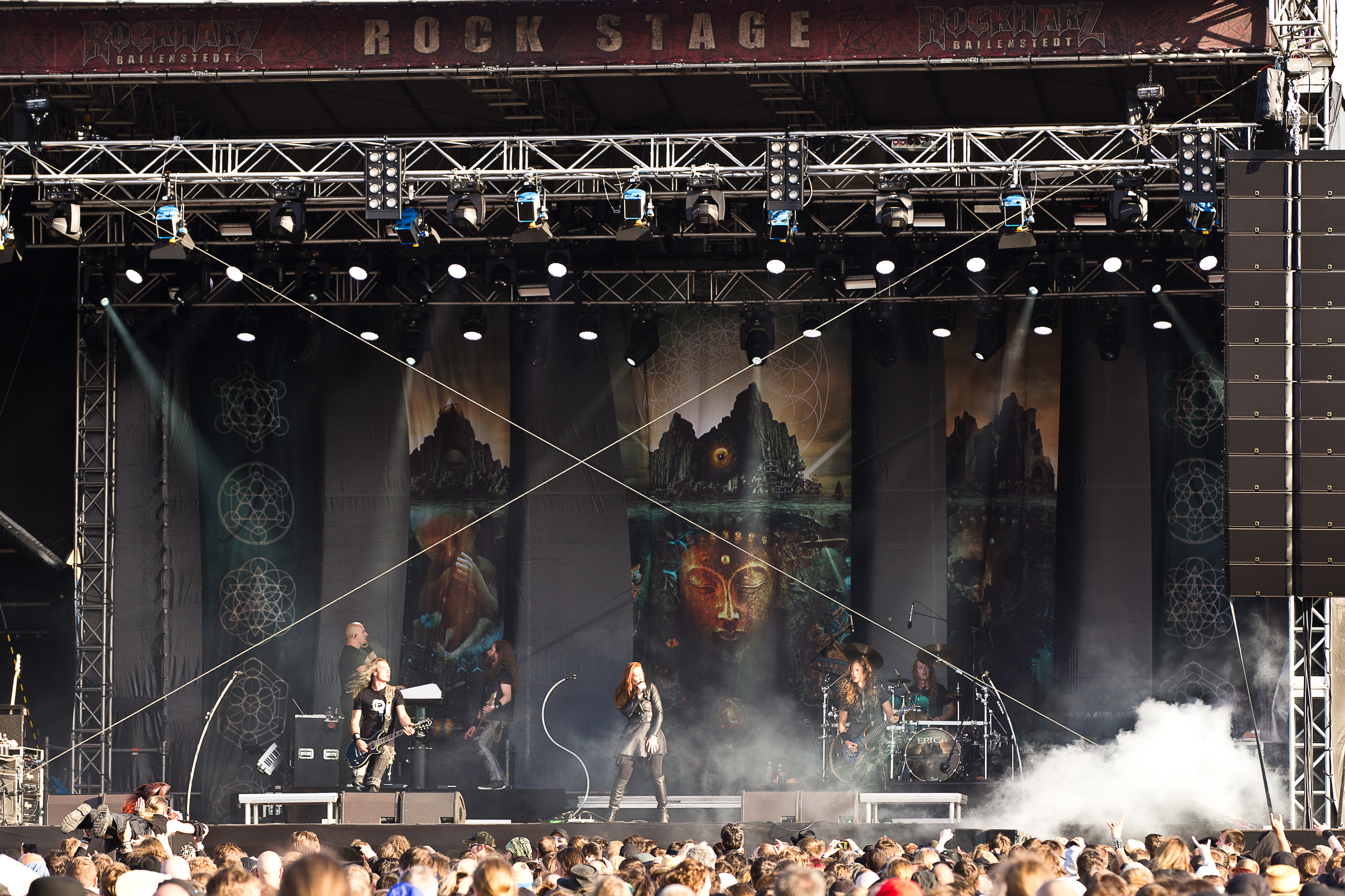 The Dutch symphonic metal band Epica at the Rockharz Open Air 2015 in Ballenstedt/Germany.